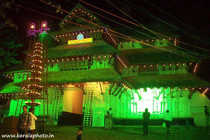 Thrissur-temple-pooram-kerala-vadakkunnathan-temples-tourism-tourist places. For more kerala pictures please visit Kerala Photos